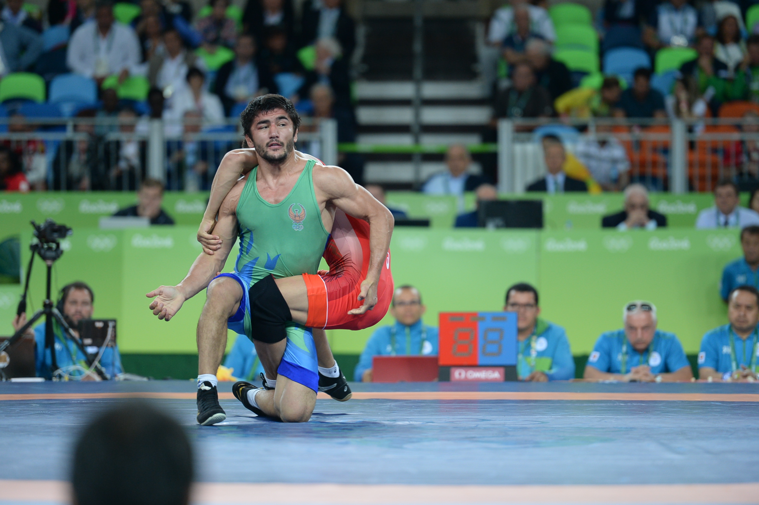 Wrestling at the 2016 Summer Olympics, Navruzov vs Mandakhnaran